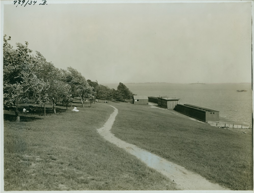 1900s Olmsted Wood Island Park, the bath houses and beach, East Boston, Massachusetts